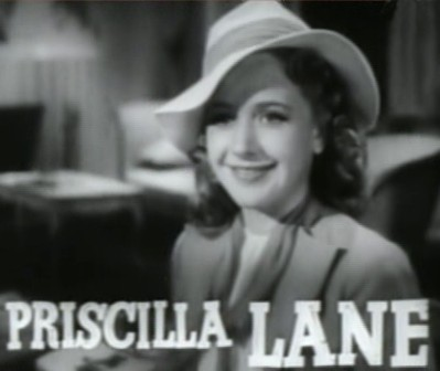 Cropped screenshot of Priscilla Lane from the trailer for the film Cowboy from Brooklyn.